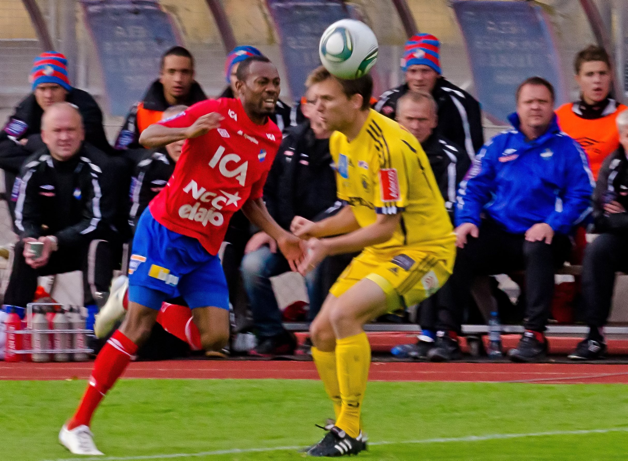 Nigerian midfielder Kevin Amuneke (left) playing against Ängelholms FF in his third appearance for his new squad Östers IF.